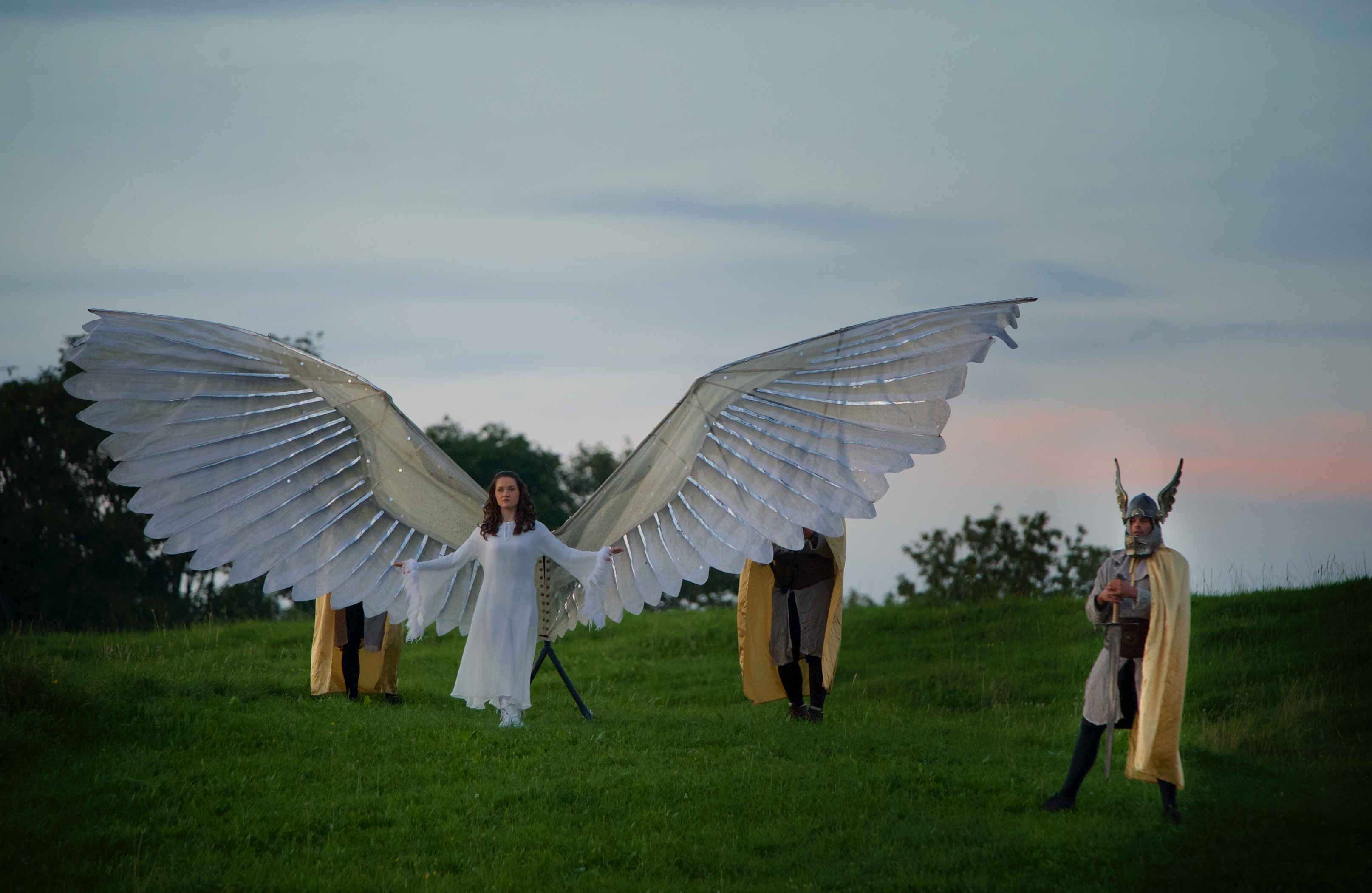 Photo of the performers on the cliff during rehearsal for the german production of the Musical The Swan Prince